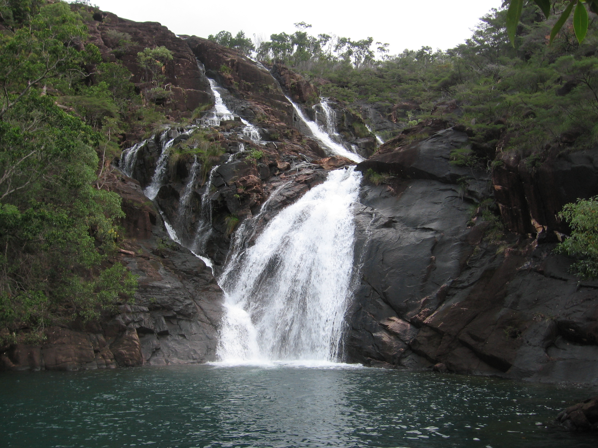 Zoe Falls on Hinchinbrook Island, North Queensland, Australia and located on the Thorsborne Trail.